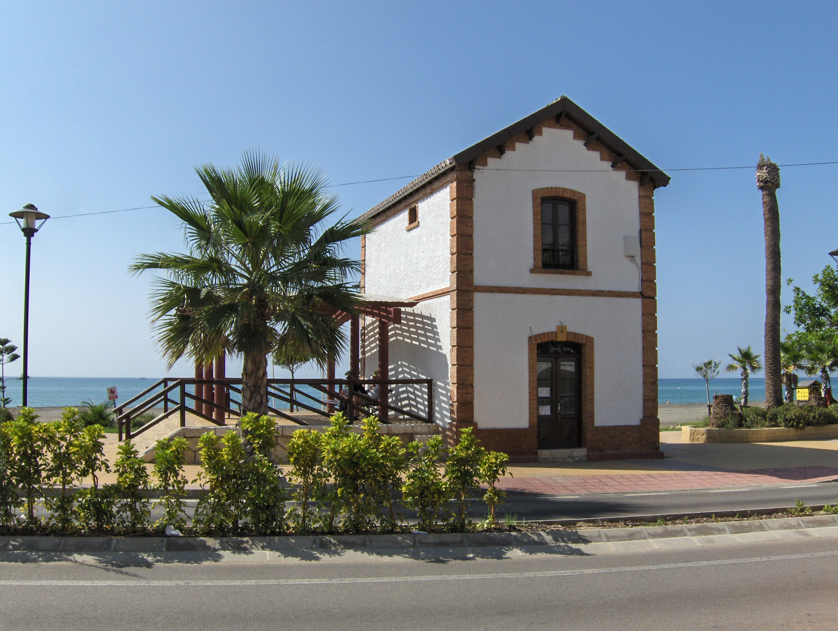 Former train station in Benajarafe, Vélez-Málaga, Spain.